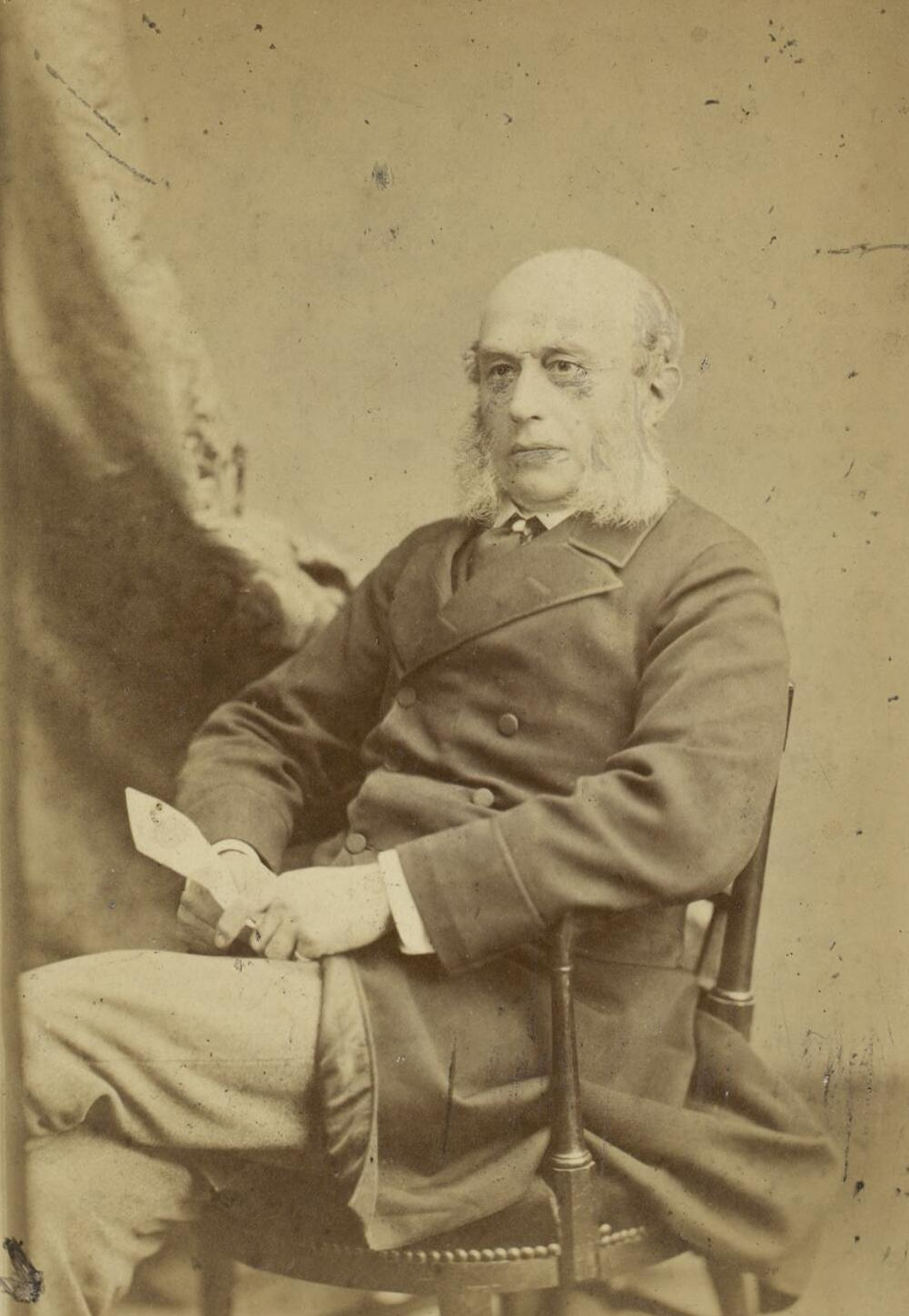 A portrait from the Welsh Portrait Collection at the National Library of Wales. Depicted person: William Rathbone – English merchant, businessman and politician